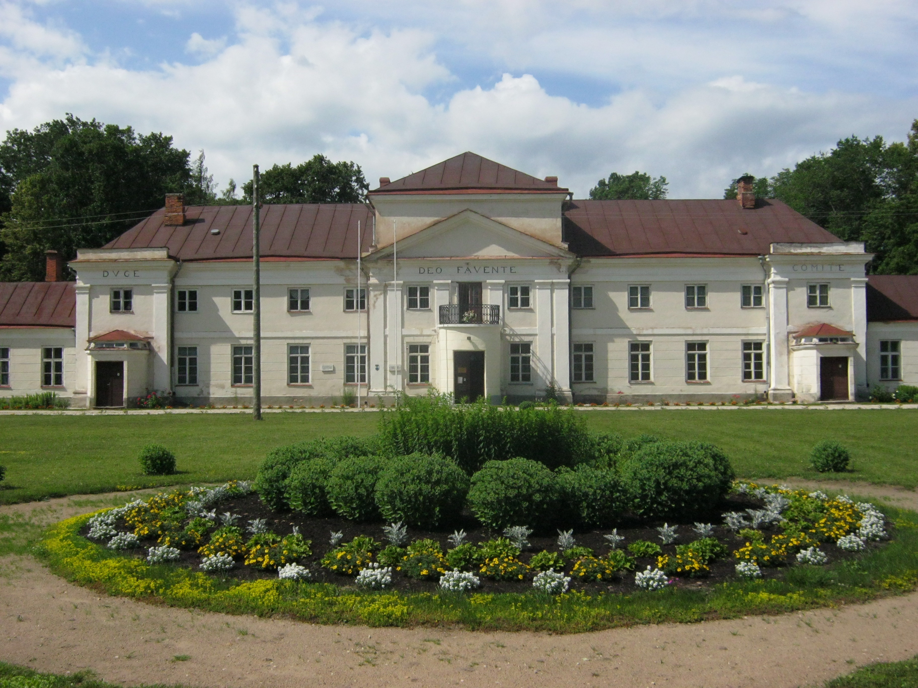 Varakļāni PalaceLatviešu: Varakļānu muižas pils